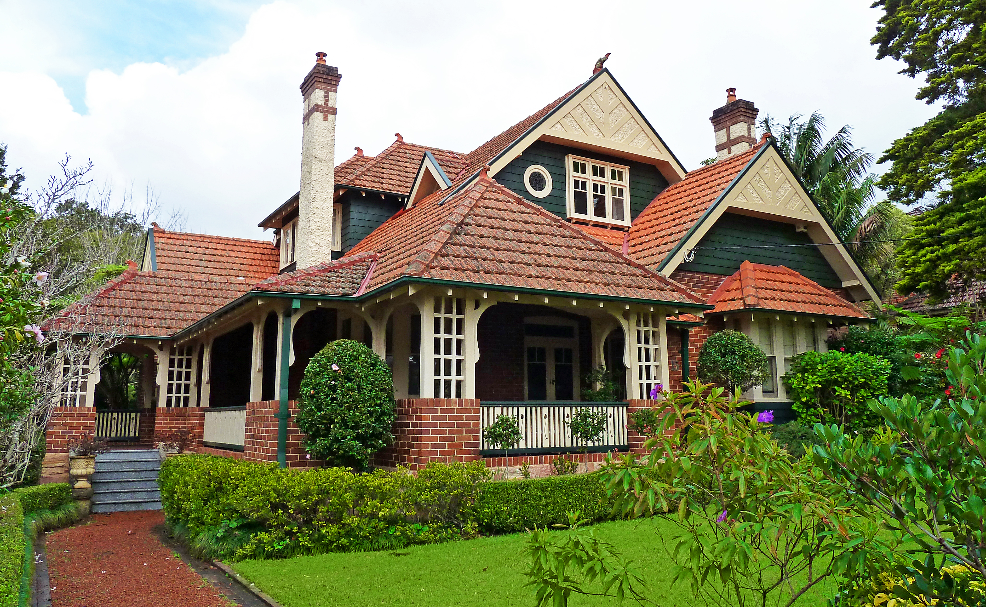 15 Northcote Avenue, Killara, New South Wales, Australia.